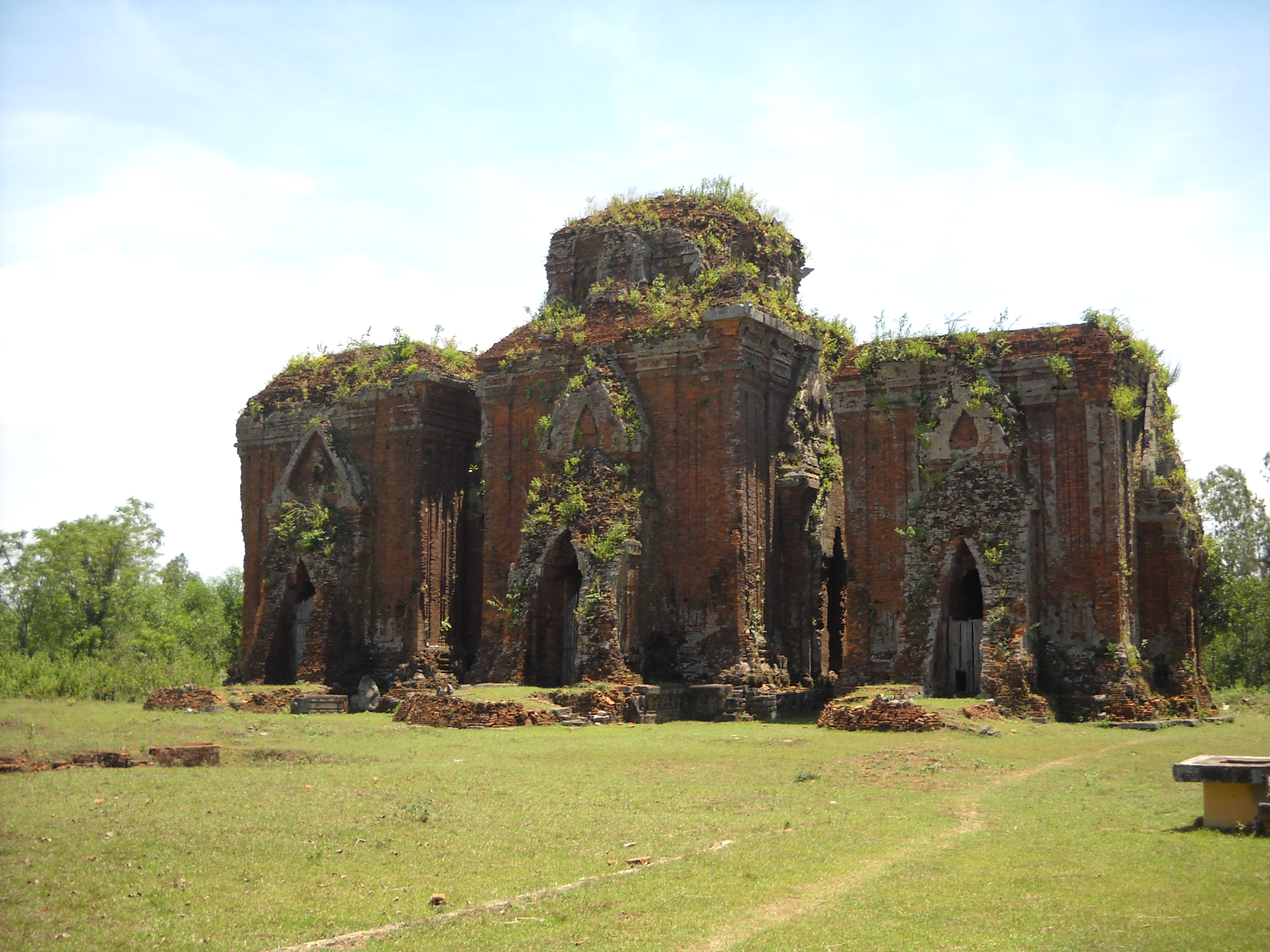 Cham tower Chien Dan in Quang Nam Province, Vietnam